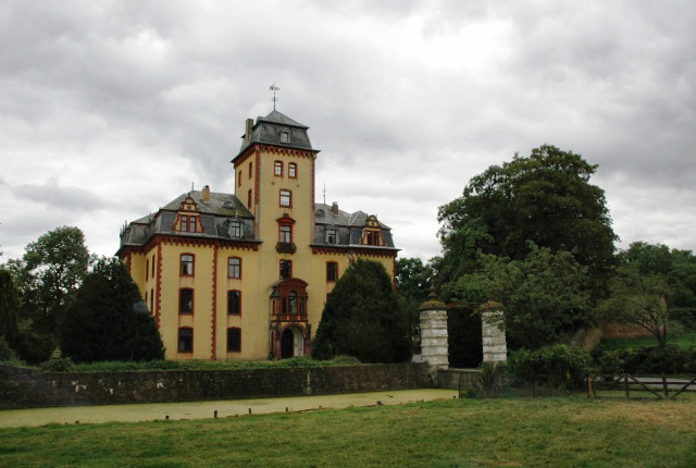 Wachendorf Castle